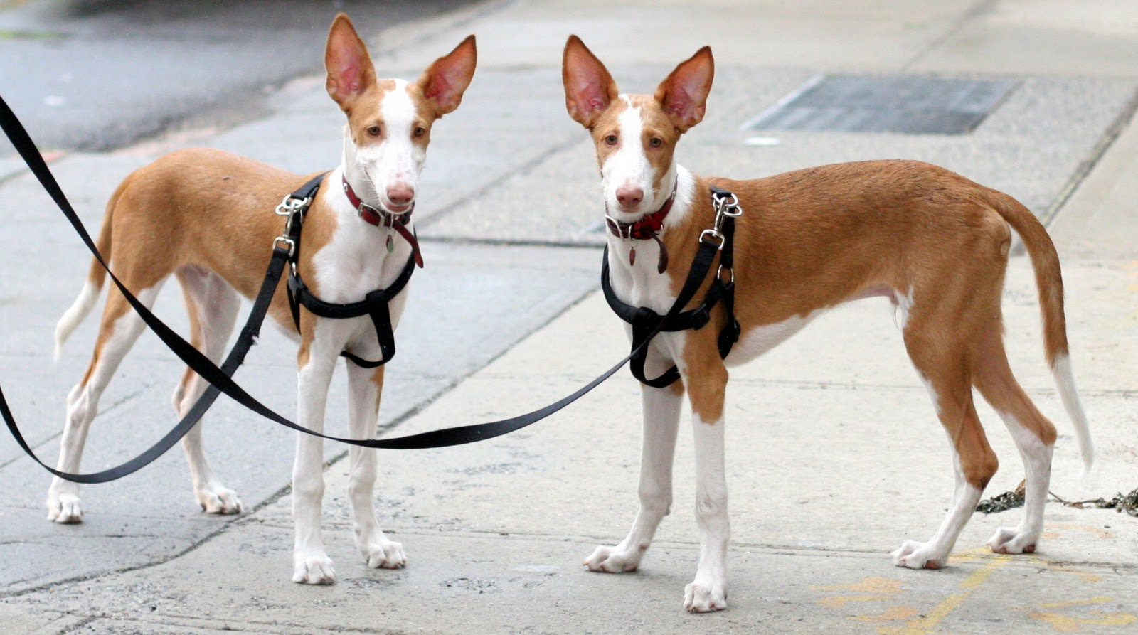 Two 6 month old male Ibizan hounds, clearly showing their large ears.